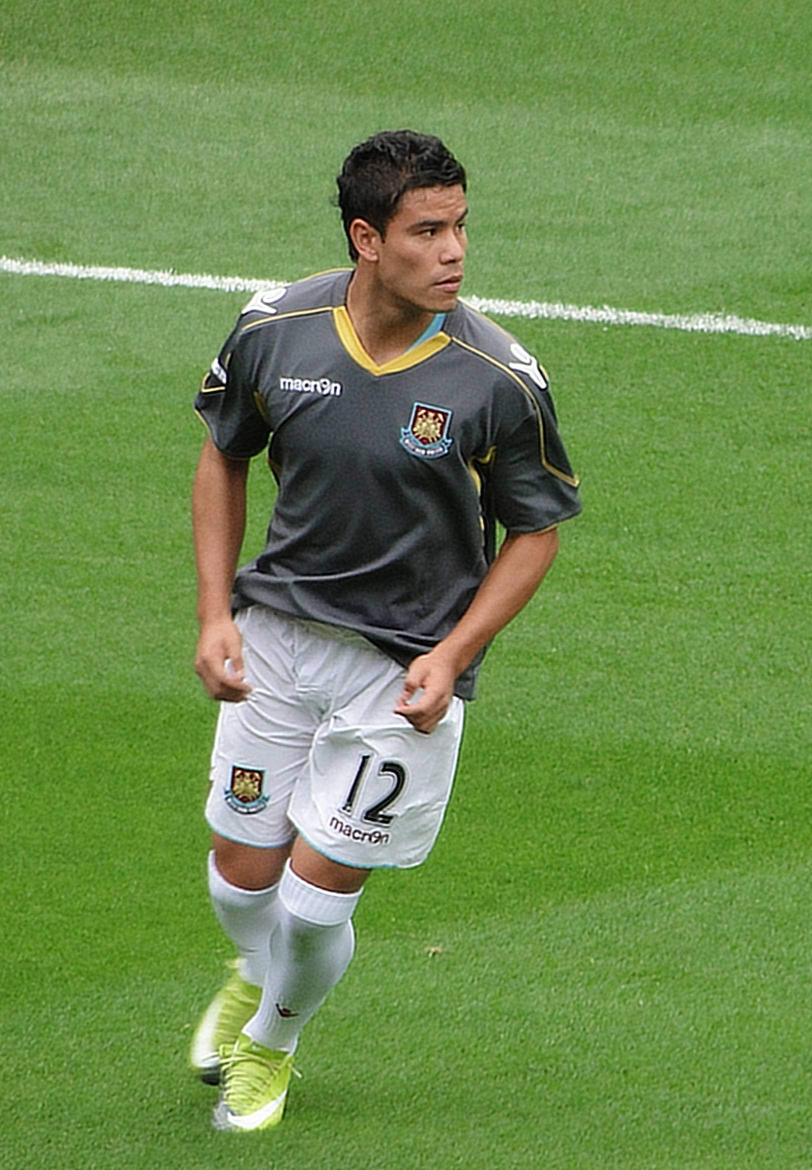 West Ham player Pablo Barrera, warming-up before their 3-1 home defeat to Bolton Wanderers on 21 August 2010